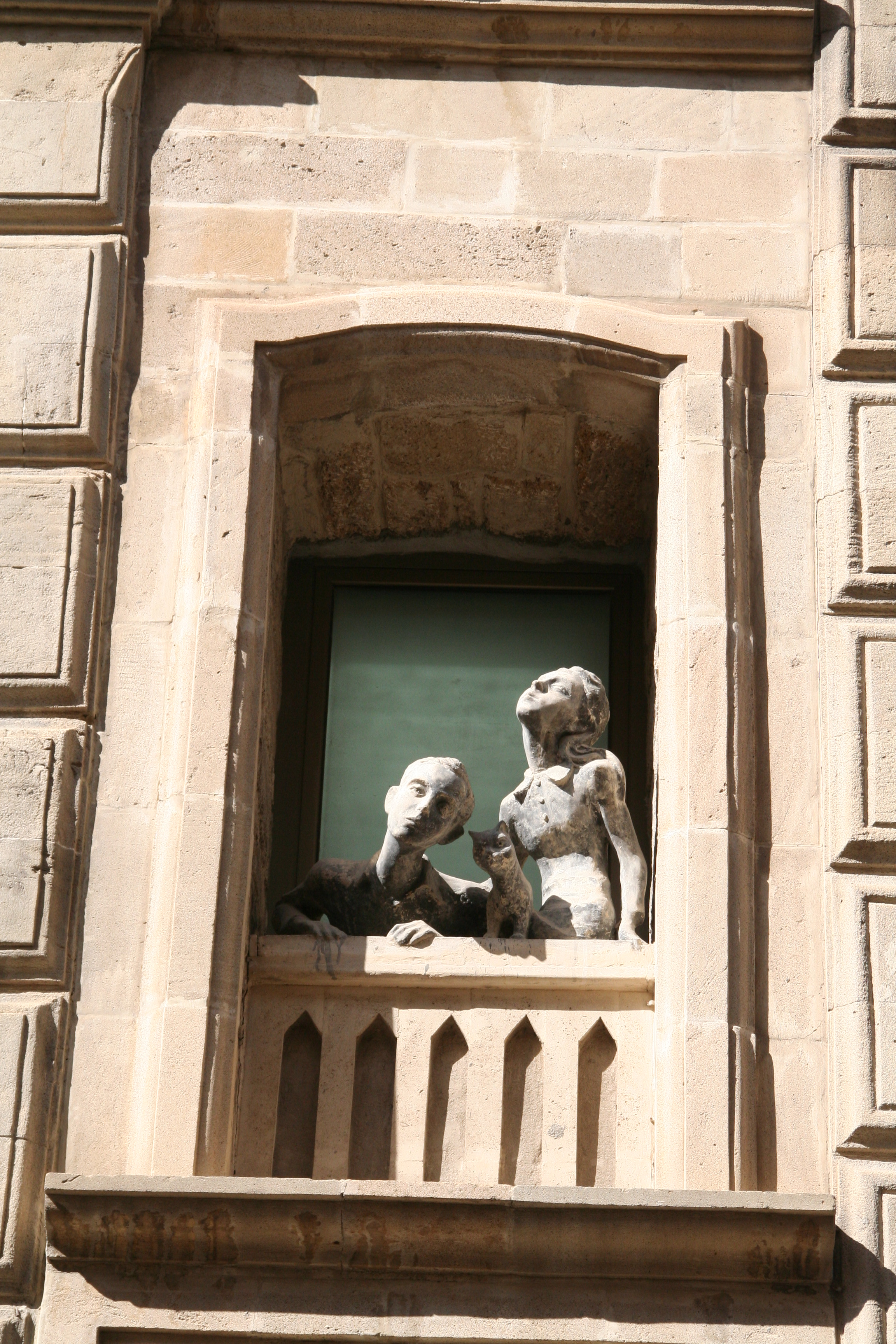 "Statues" on the building on Tower Street 19